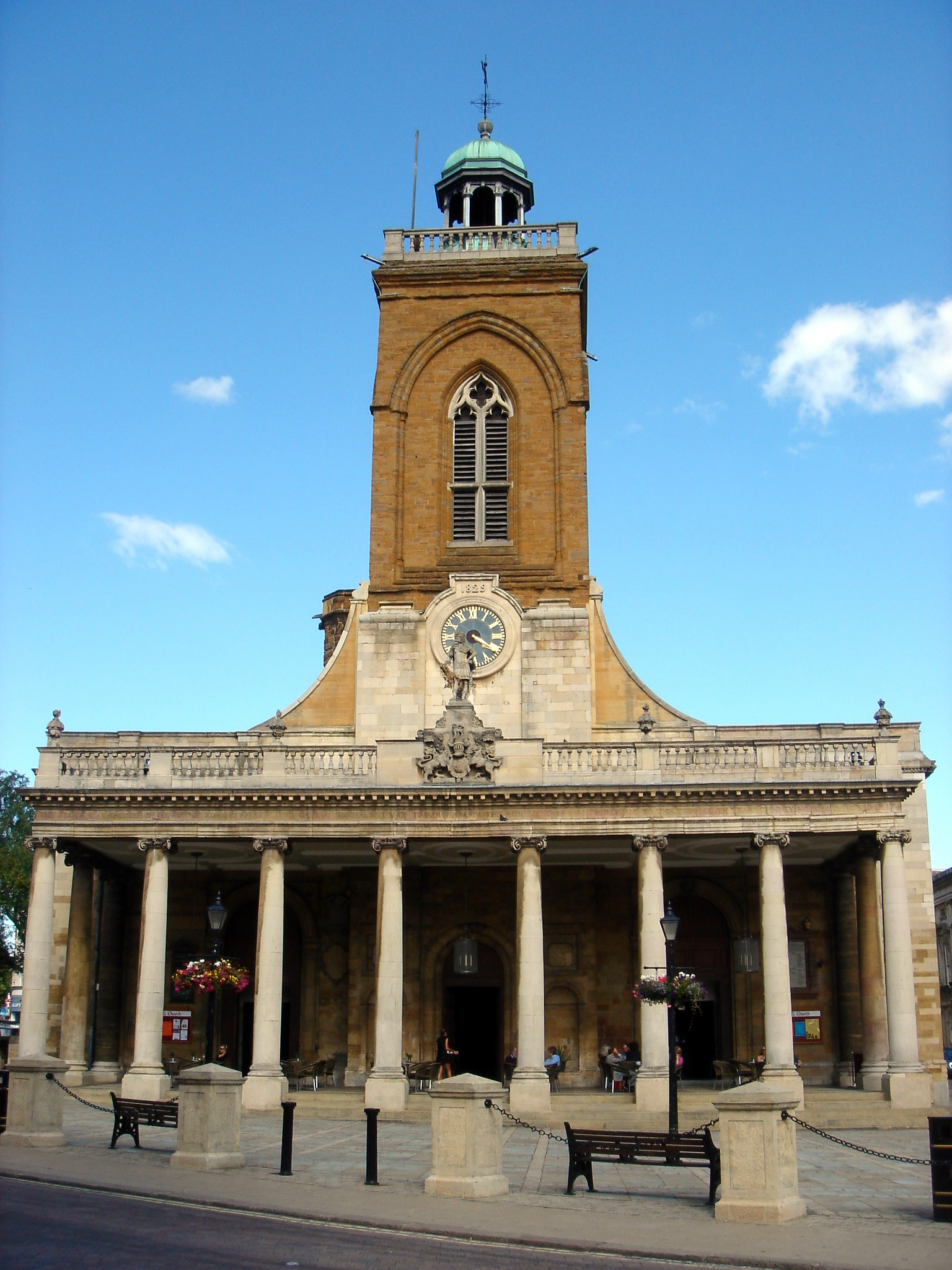 West front of All Saints' parish church, Northampton. In 1701 a portico was added to the west end, in front of the narthex. The portico is a copy of the Inigo Jones portico of Old St. Pauls in the City of London. The statue of King Charles II adorns the parapet.